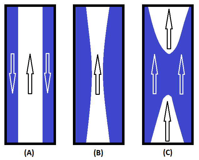 Picture depicts reversal of counter-current flow to concurrent flow may be seen during flooding of a nuclear reactor core. (A) Annular flow, running counter-current (B) If conditions are correct, the frictional force at the gas/liquid interface begins to reverse the flow of the liquid (C) The flow of the liquid has been reversed, now running concurrently in a slug (or other) flow regime